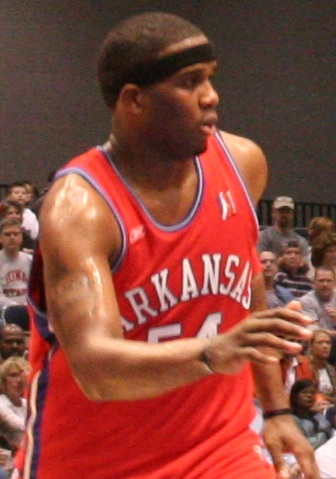 Ramel Curry of the Austin Toros drives the ball in a game vs the Arkansas Rimrockers at the Austin Convention Center in Austin, Tex. on January 27, 2006.